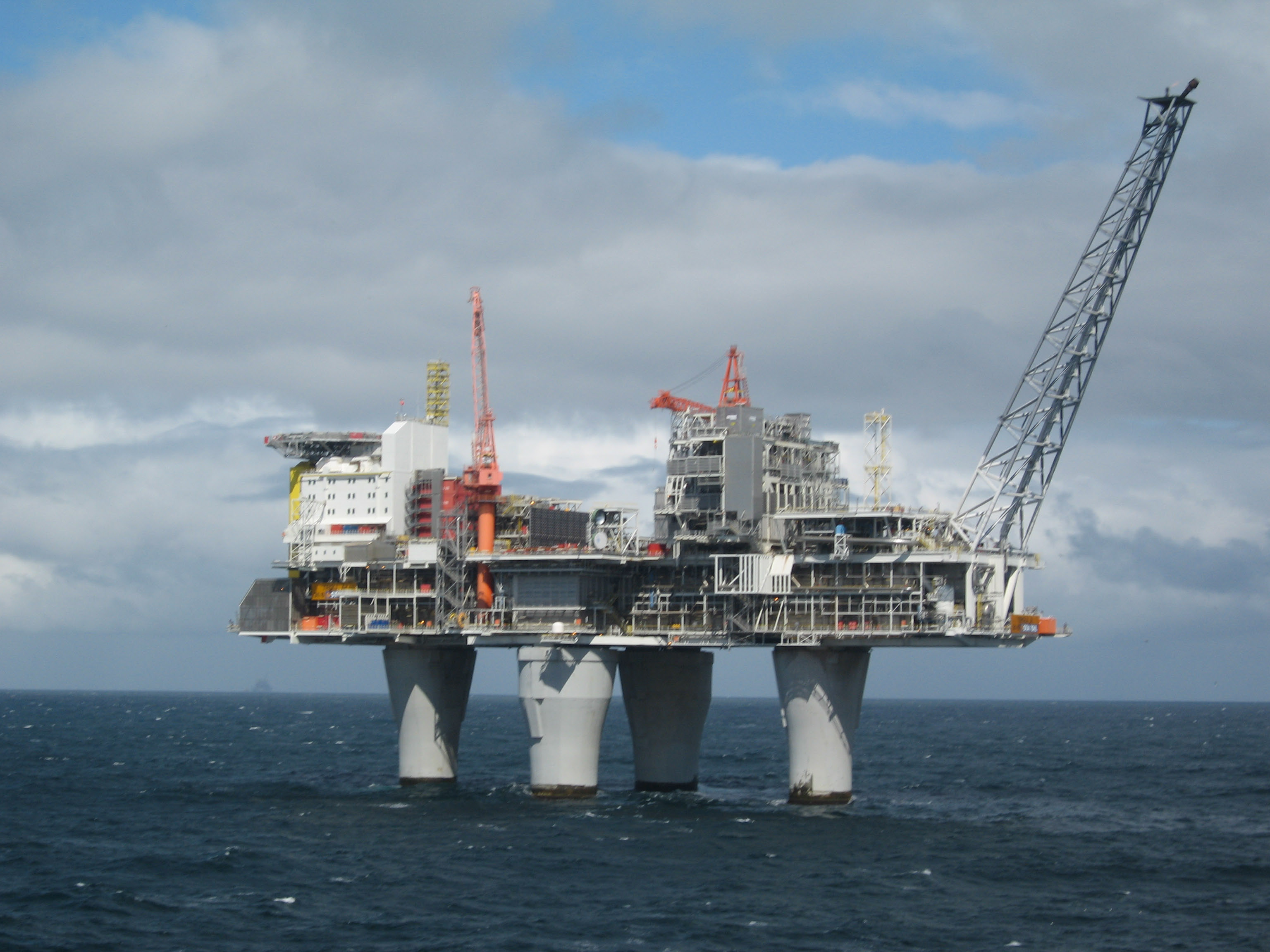 Photo of the Troll A Platform taken from the SE